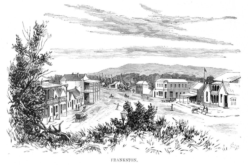 Sketch of Main Street in Frankston (now Nepean Highway) in 1886 by Charles Samuel Bennett (print, wood engraving). Published in the Illustrated Australian on 18 December 1886.